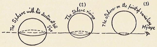 Intended for inclusion in Wikisource article for Flatland